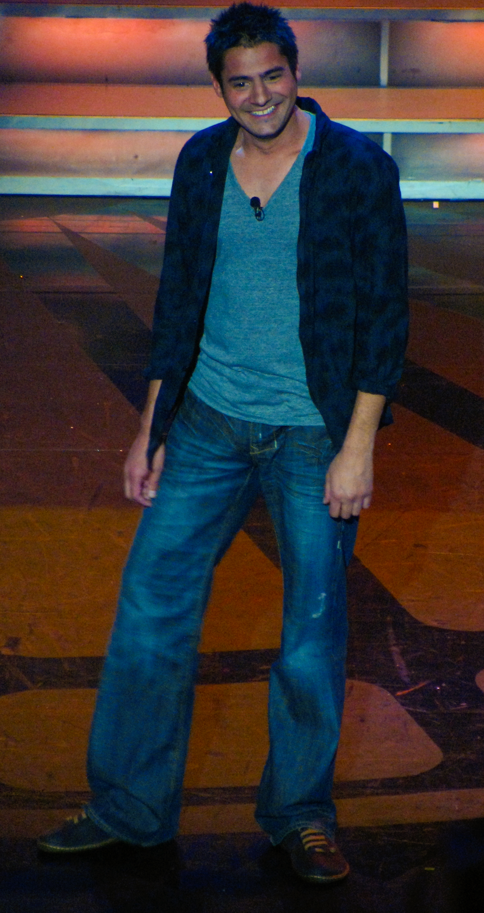 Danny Bhoy at the Just For Laughs Festival Montreal - All Star Britcom Gala, July 22, 2009.